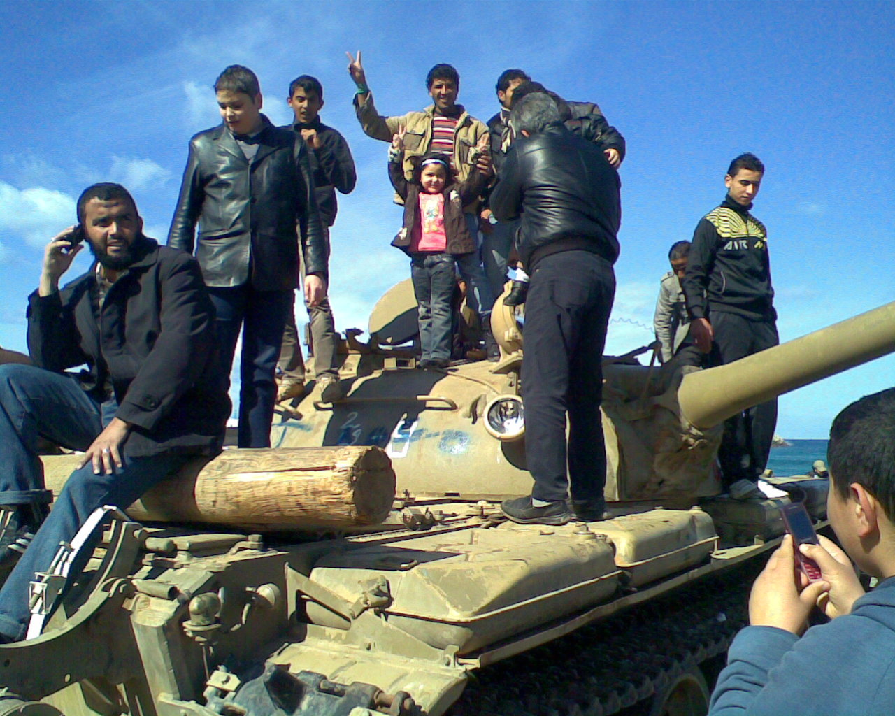 People on a tank in a Benghazi rally.